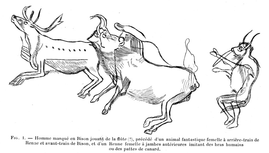 Grotte des Trois-Frères, Montesquieu-Avantès, Ariège, France. Engraving on cave wall known as "le petit sorcier à la flûte" (small shaman playing the flute") or "petit sorcier à l'arc musical" ("... musical bow"). Reproduction par Henri Breuil (1930). This picture has often been used to "demonstrate" prehistoric music, but a recent study shows that it more likely is a man walking on his hands and knees (among other clues is the orientation of the tail of the animal skin that covers the figure).